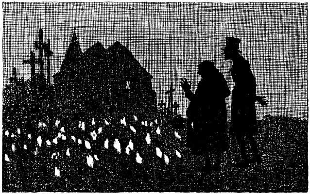 Illustration by Otto Ubbelohde to the fairy tale The Master Thief